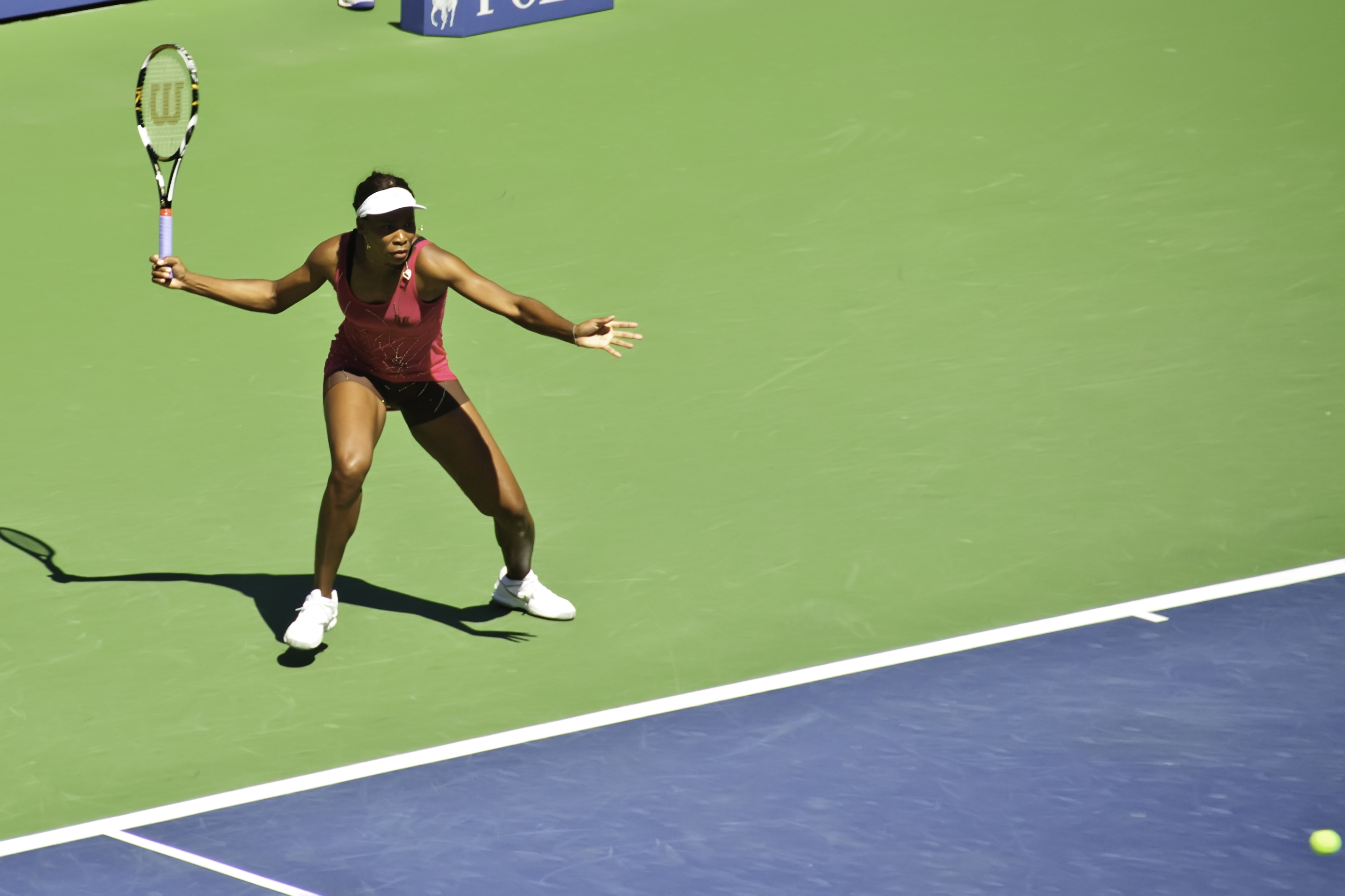 Venus Williams at the 2010 US Open